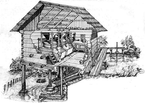 Slunj, Rastoke, outline of a traditional watermill with paddle wheels